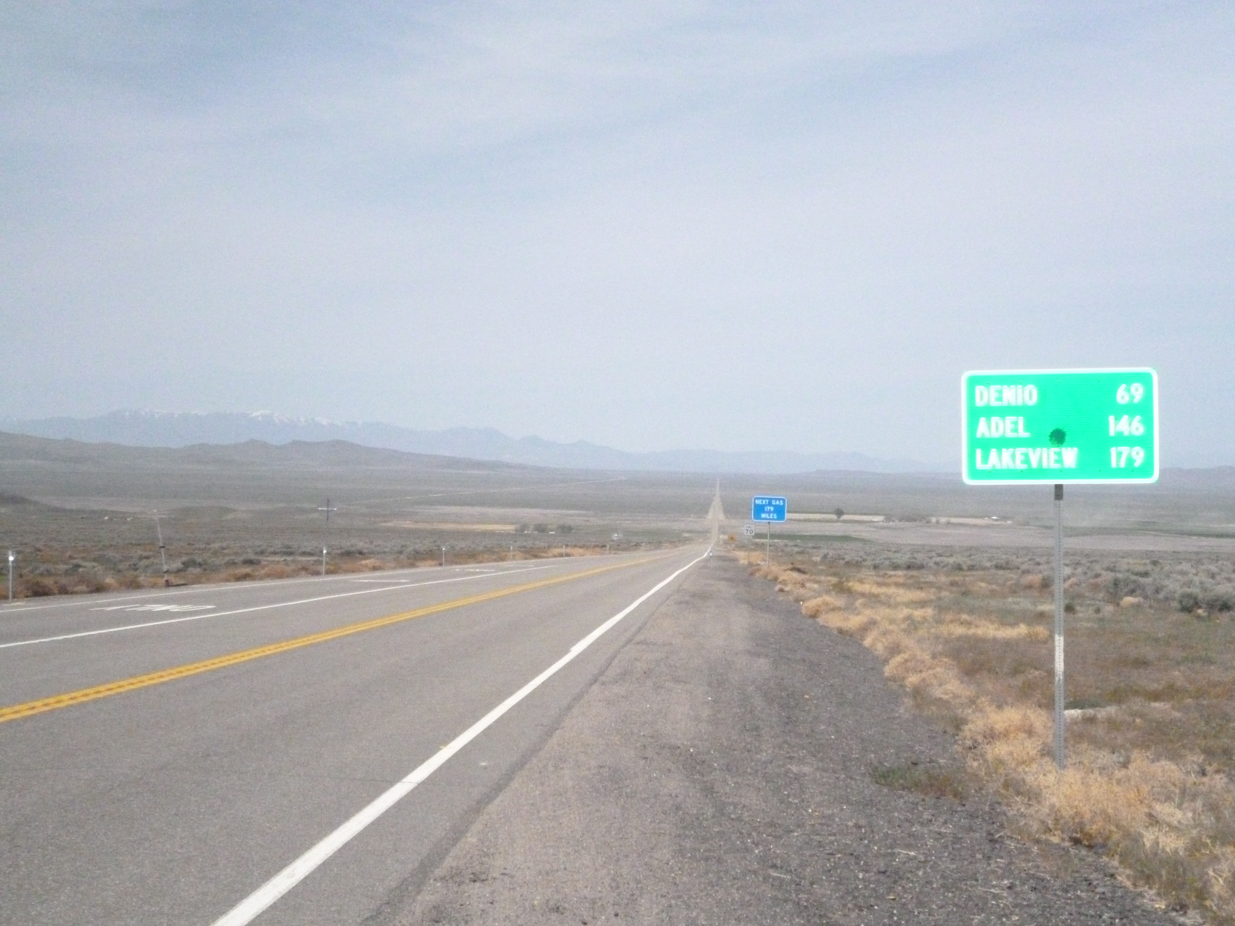 Start of Nevada Route 140 near Winnemucca, Nevada.